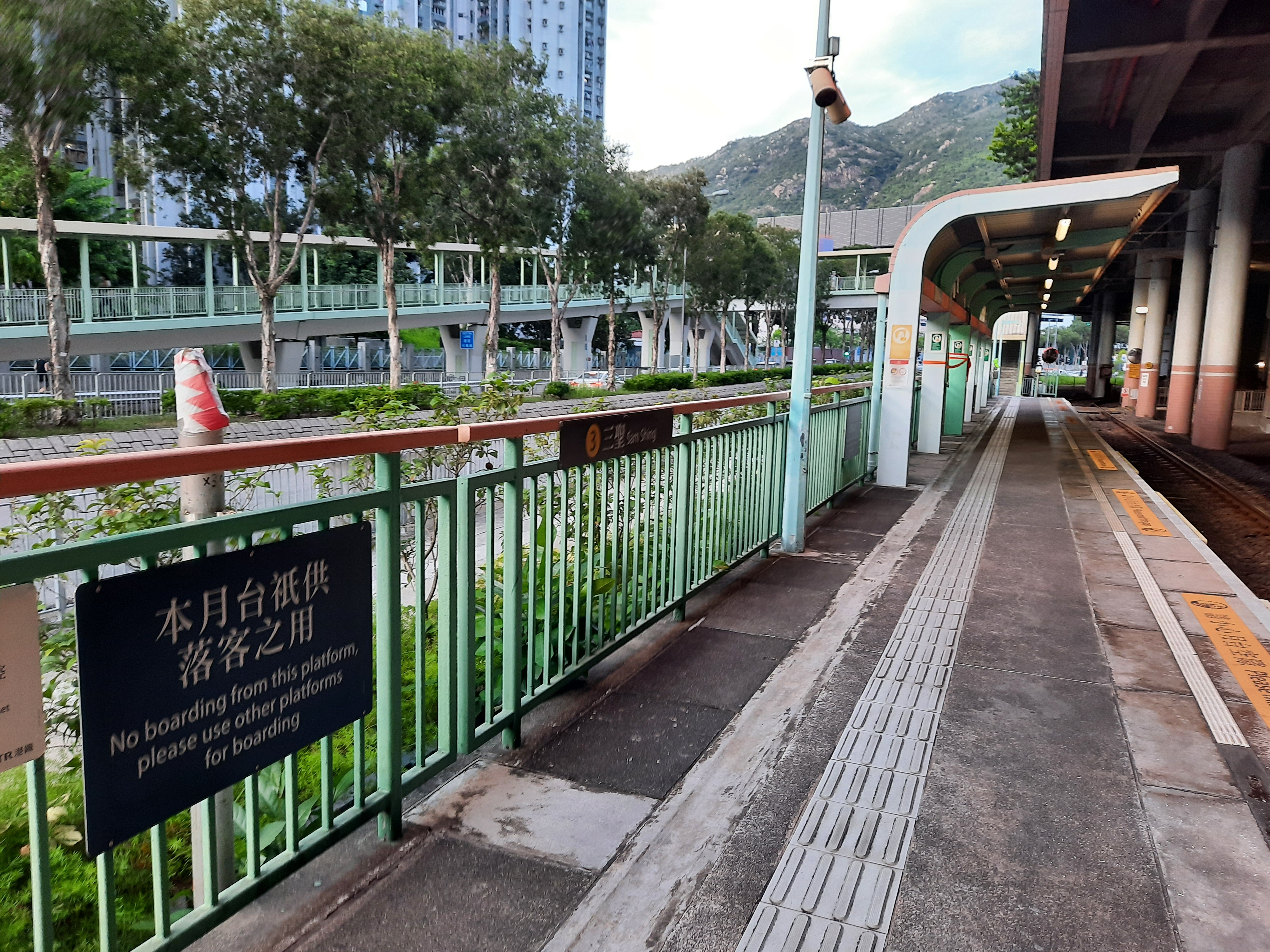 LRT SAM SHING ALIGHTING PLATFORM